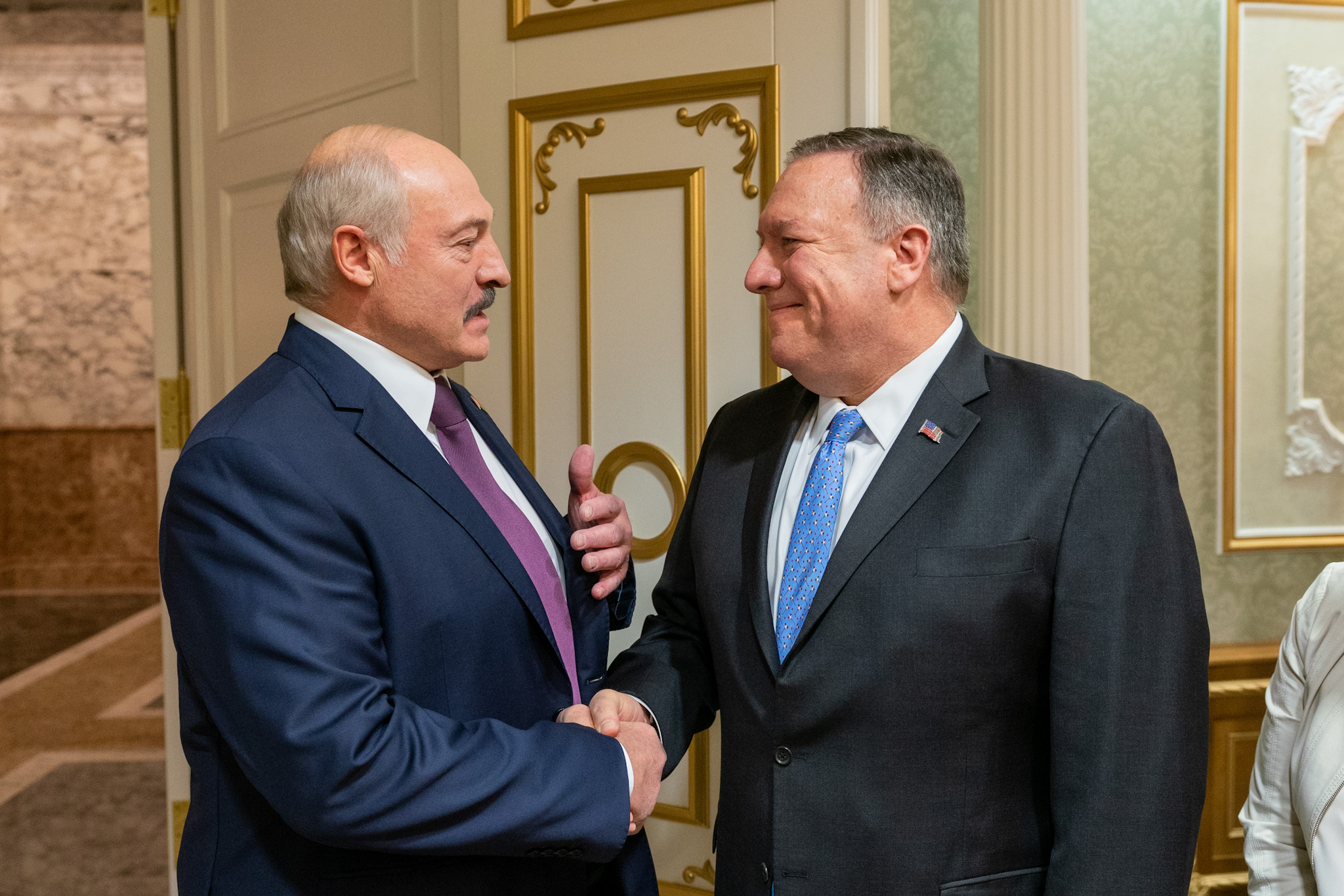 U.S. Secretary of State Michael R. Pompeo meets with Belarusian President Alexander Lukashenko in Minsk, Belarus, on February 1, 2020. [State Department Photo by Ron Przysucha/ Public Domain]